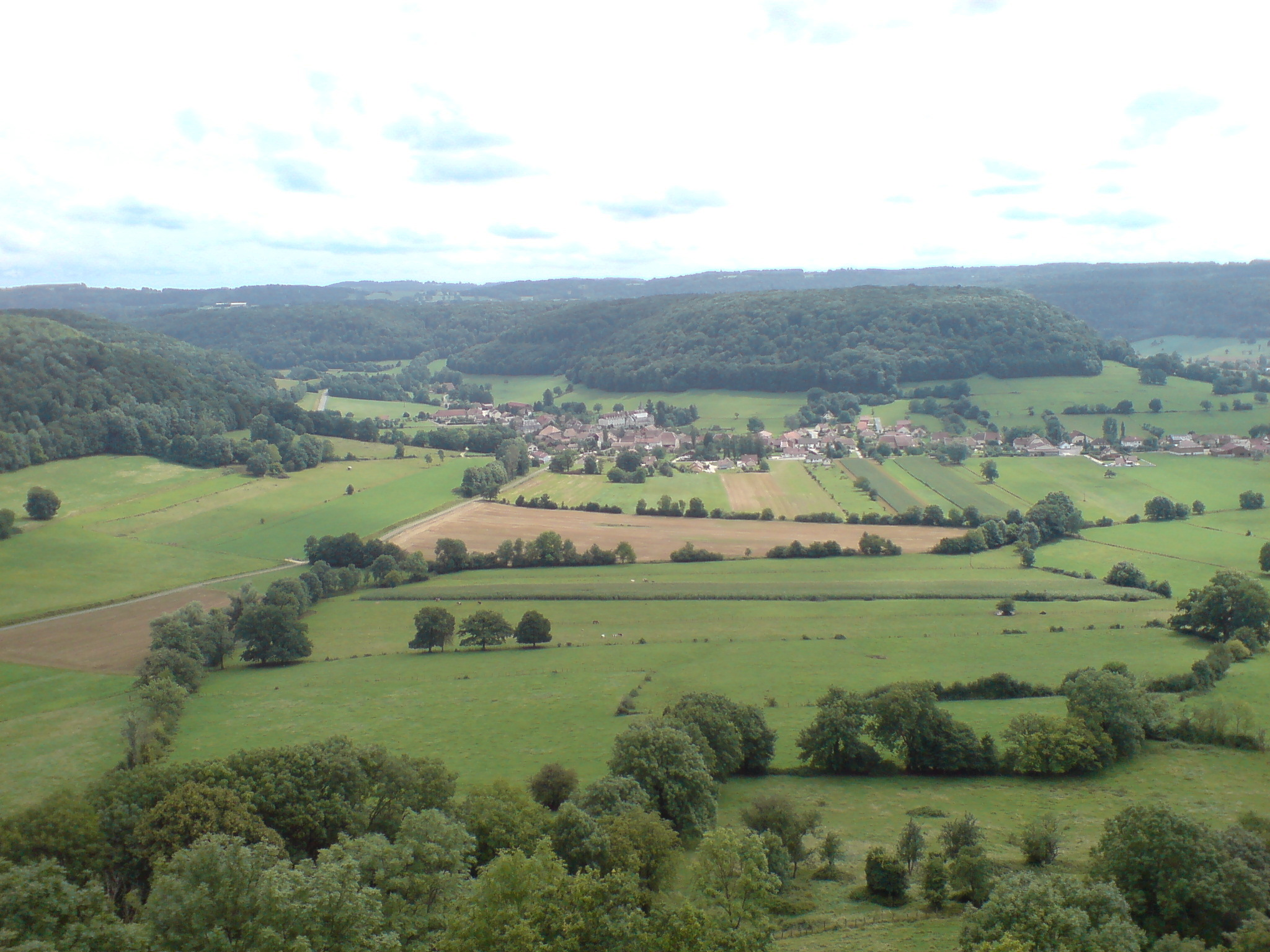 This is the french village of Sancey-le-long